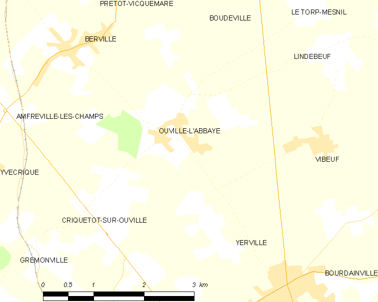 Map of French municipality Ouville-l'Abbaye